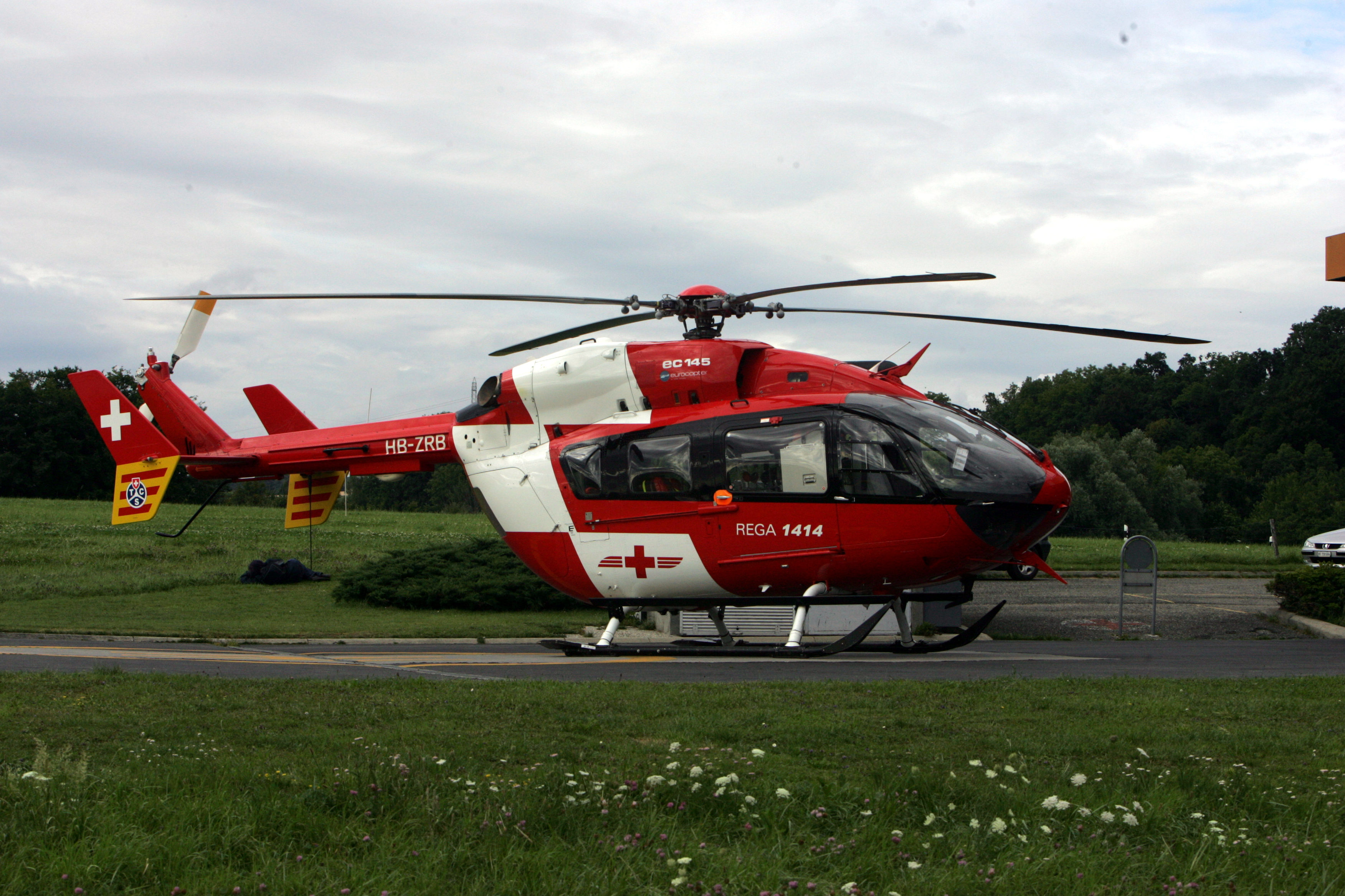 Eurocopter EC 145 of the Rega